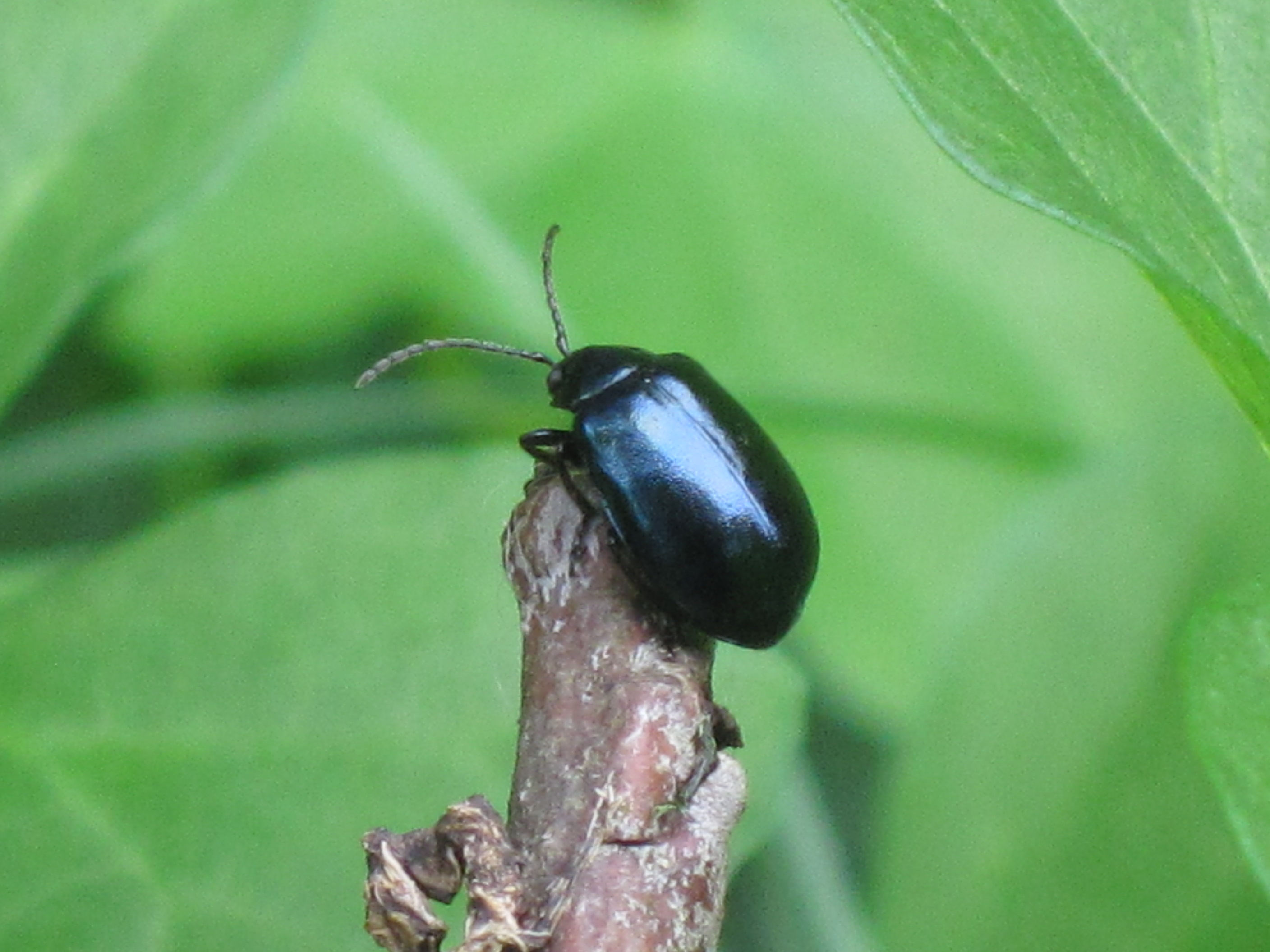 Agelastica alni (Alder leaf beetle), Arnhem, the Netherlands